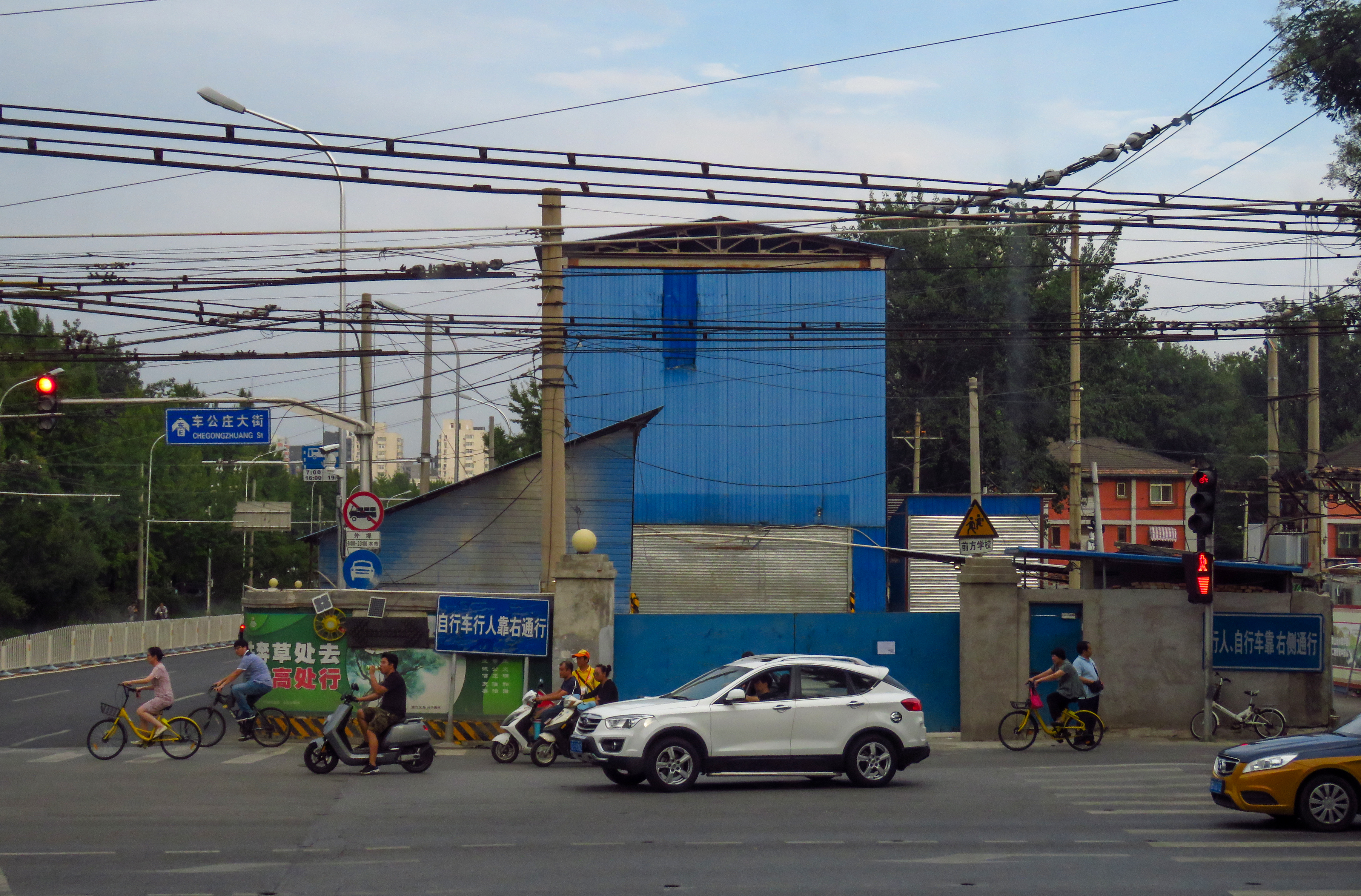 Taken from T18 on its last day of operation.